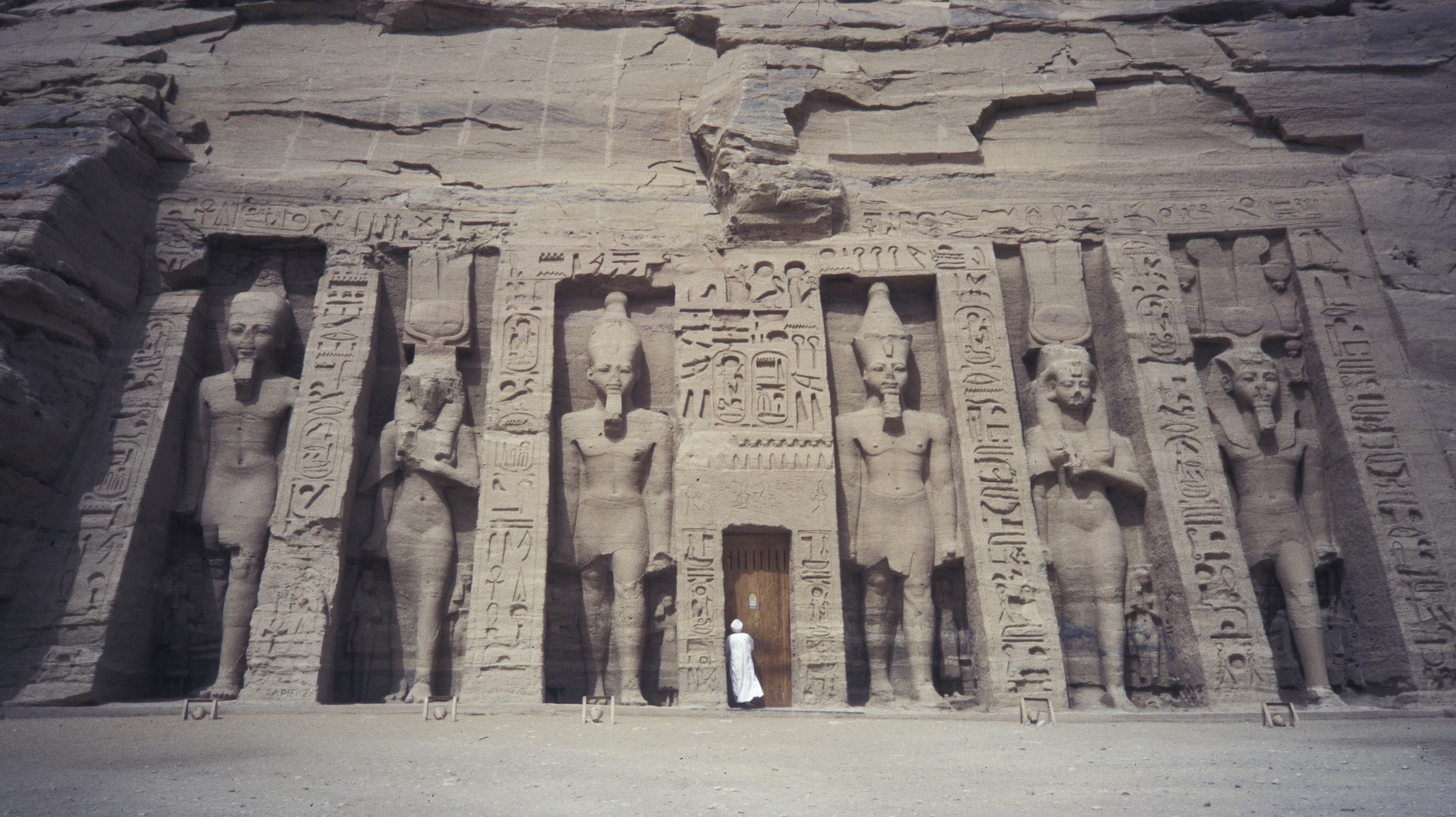 Little Temple of Abu Simbel, Egypt